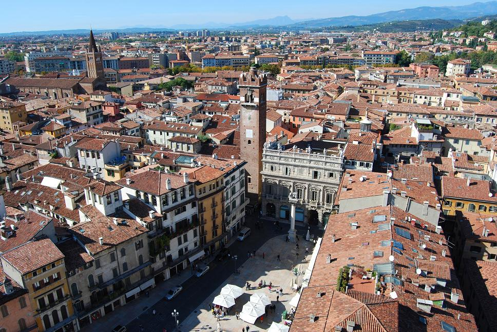 Piazza Erbe seen from the Lamberti tower